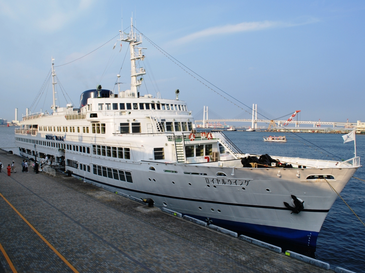 Royal Wing at Yokoham Port Osanbashi